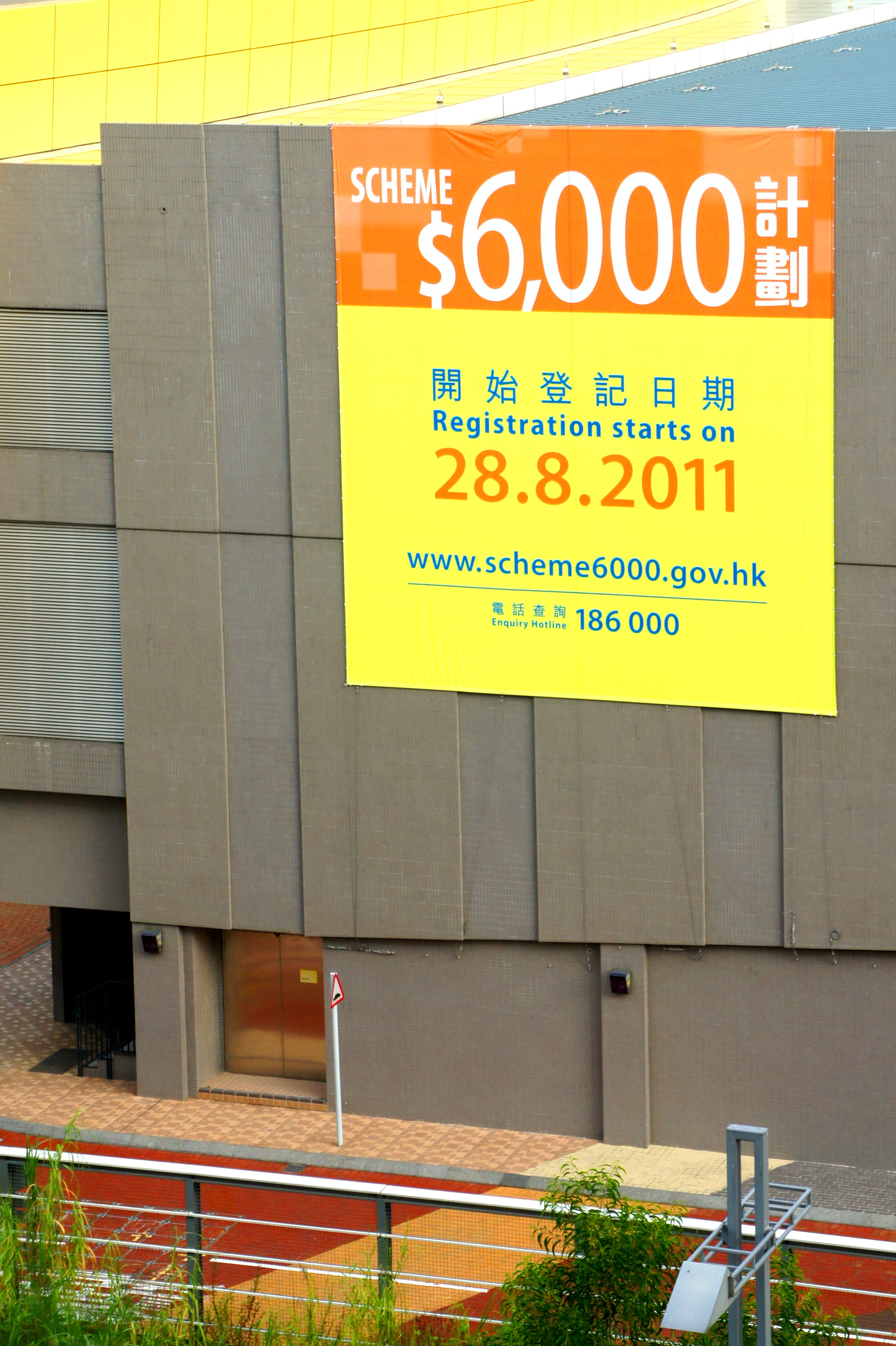 An outdoor poster of “Scheme $6,000". A sum of HK$6,000 was given to each holder of a valid Hong Kong Permanent Identity Card aged 18 or above on 31 March 2012.